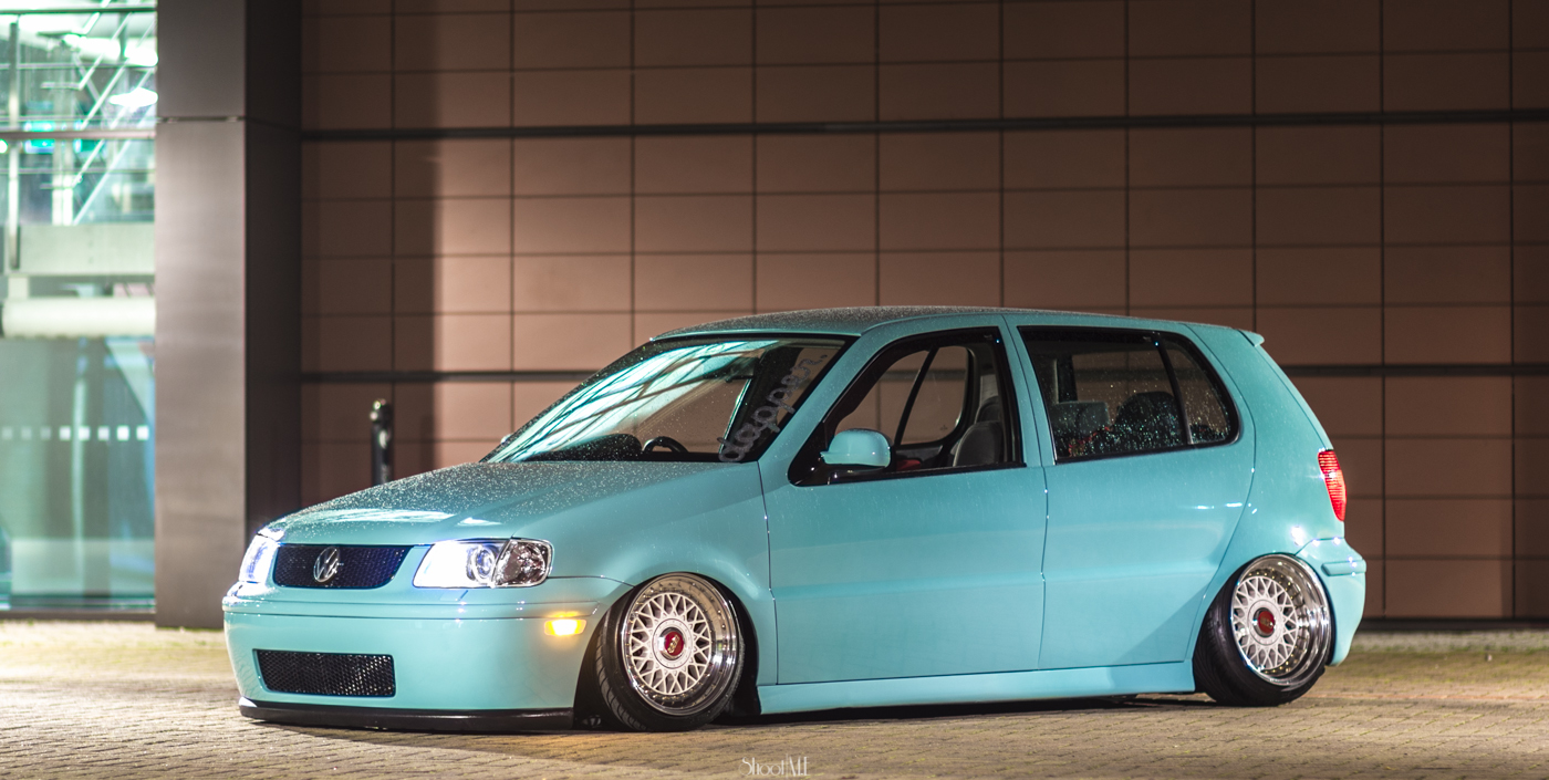 VW Polo 6N2 on fully lowered air suspension, aftermarket BBS RM wheels with red center caps